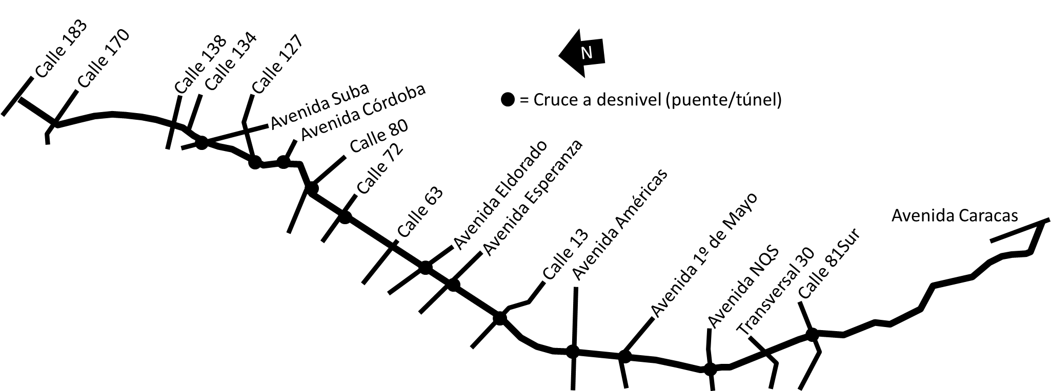 Avenida Boyacá.